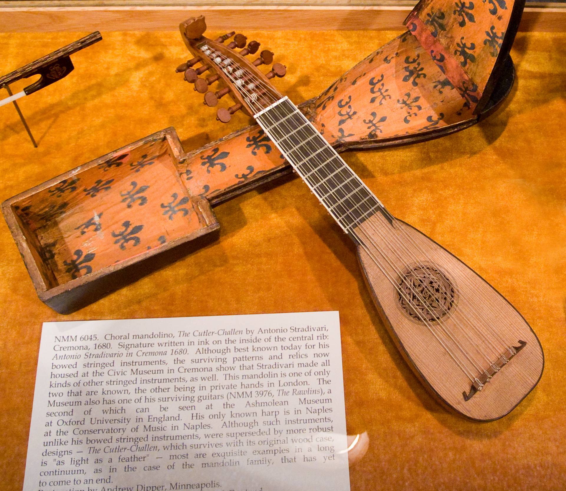 National Music Museum in Vermillion, SD where we visited last fall has a Stadivarius collection. There is a guitar, violin, cello (converted), and a mandolin with original case. These are all restored to playable condition.